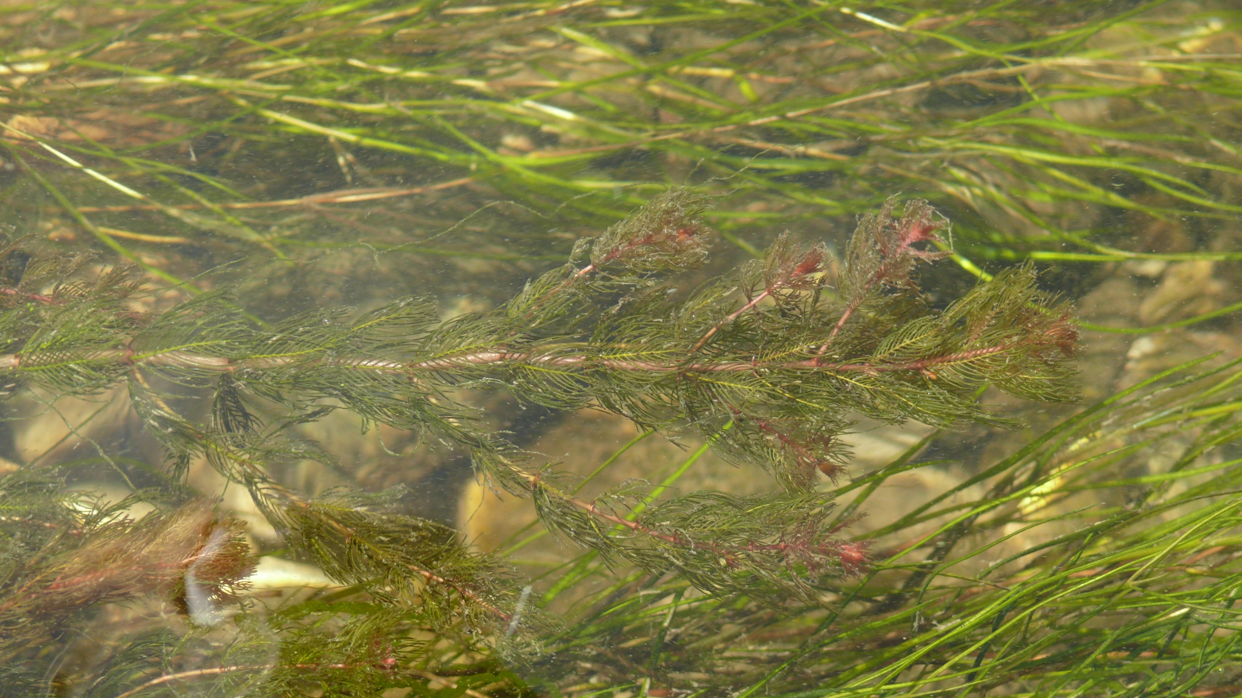 Myriophyllum spicatum und Potaogeton pectinatus, Jagst, Hohenlohe